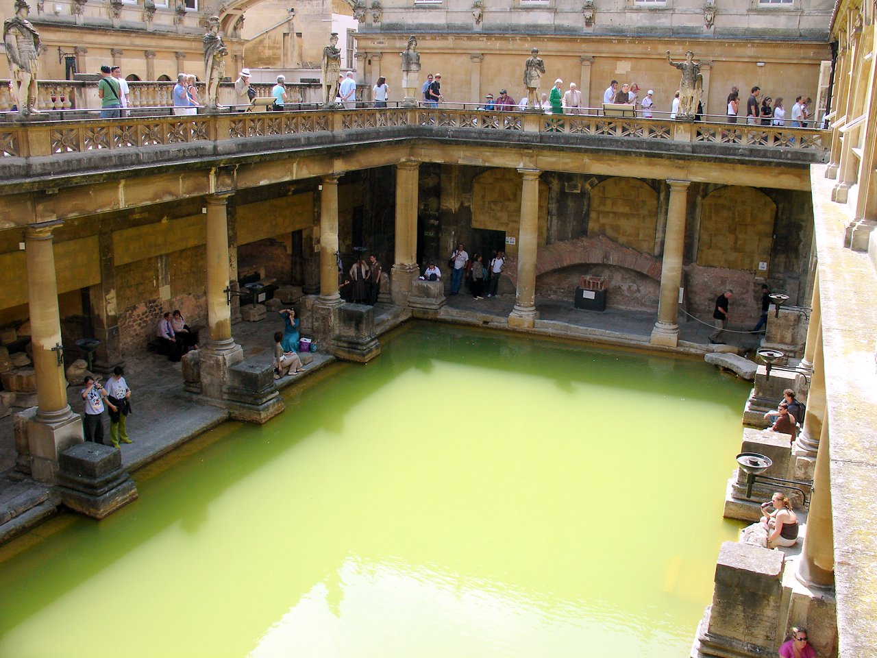 Roman baths in Bath (England)